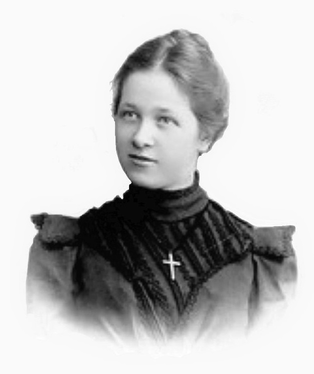 Photograph of Estonian poet Marie Under (1883–1980). Photograph is circa 1903 by Max Meixner of Reval (Tallinn). Other information Image was taken of notable person (Marie Under), an Estonian poet. Copyright is believed to have expired, as it was taken circa 1899-1903 as can be evidenced by the subject's appearance and dress. The image is merely being used for academic purposes to illustrate the subject and has been used elsewhere on the internet to identify the subject. The author of the picture, Max F. Meixner has been deceased for many years.